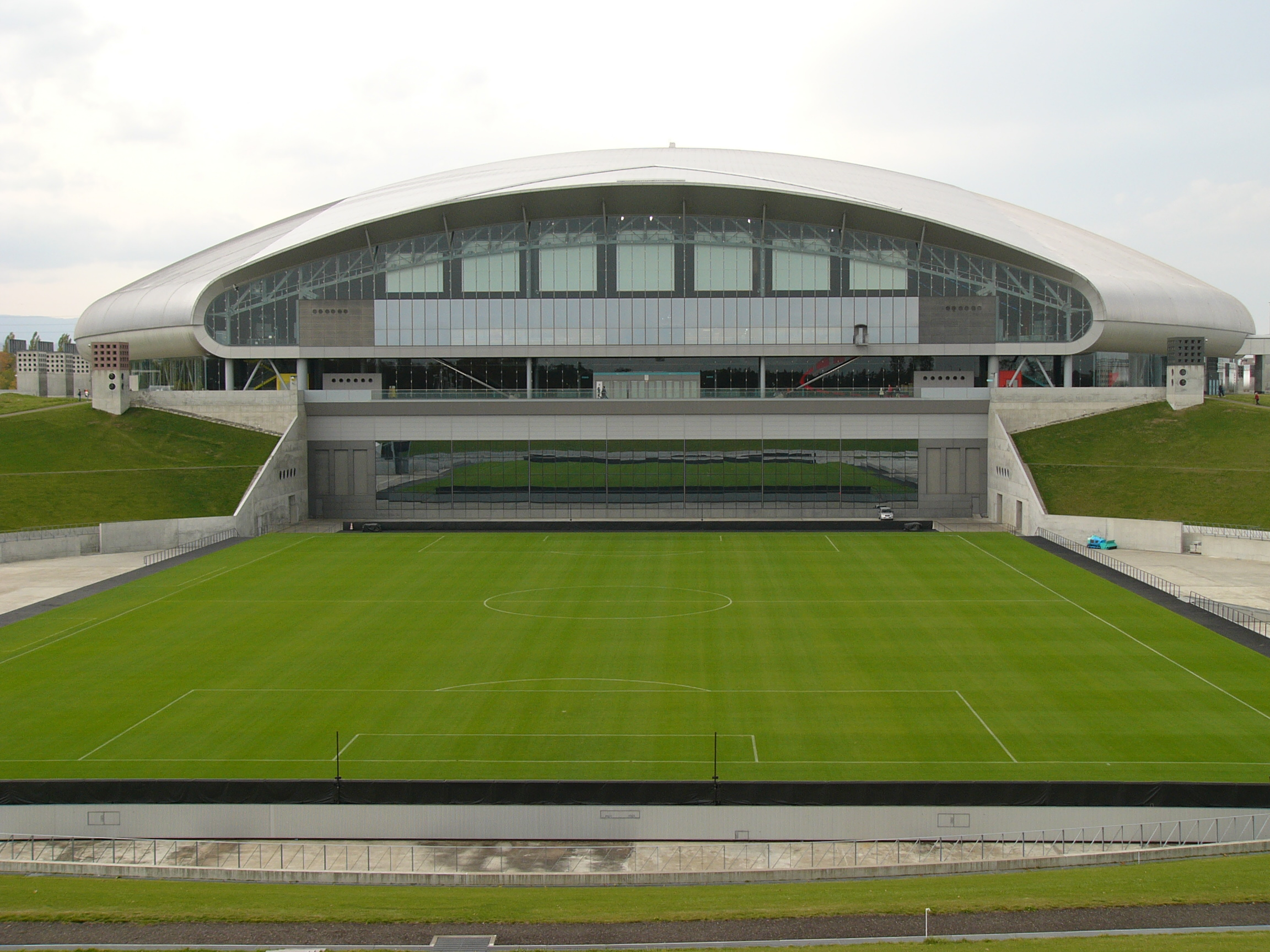 The moving grass surface at Sapporo Dome.